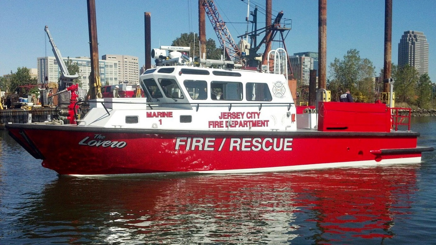 Marine Company 1 Fdjc